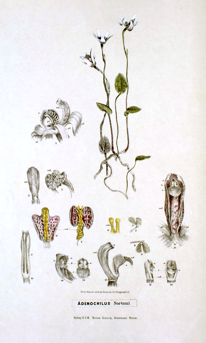 Illustration of Adenochilus nortonii from Fitzgeraldi, R. D.: Australian Orchids